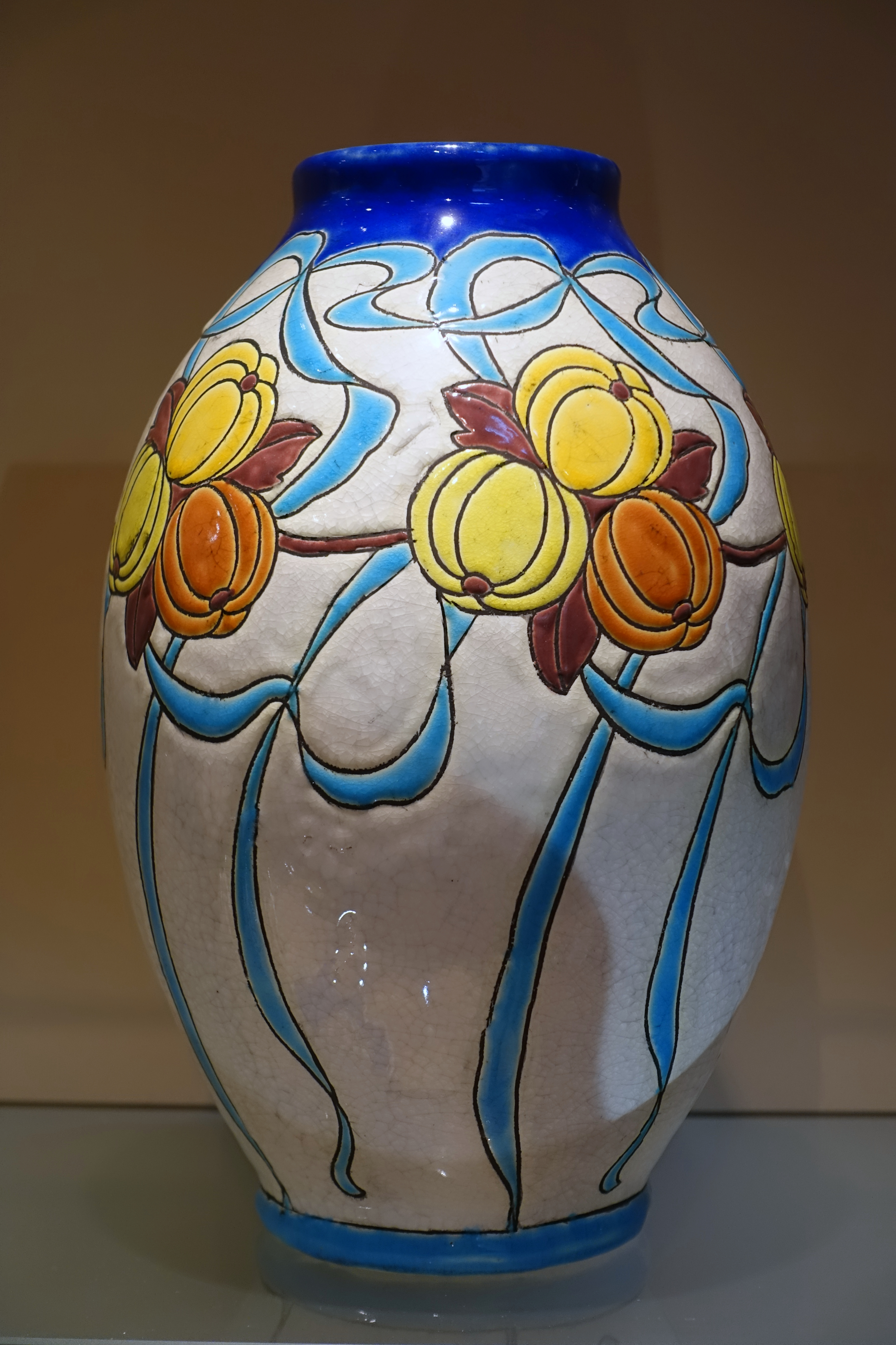 Exhibit in the Cinquantenaire Museum - Brussels, Belgium.